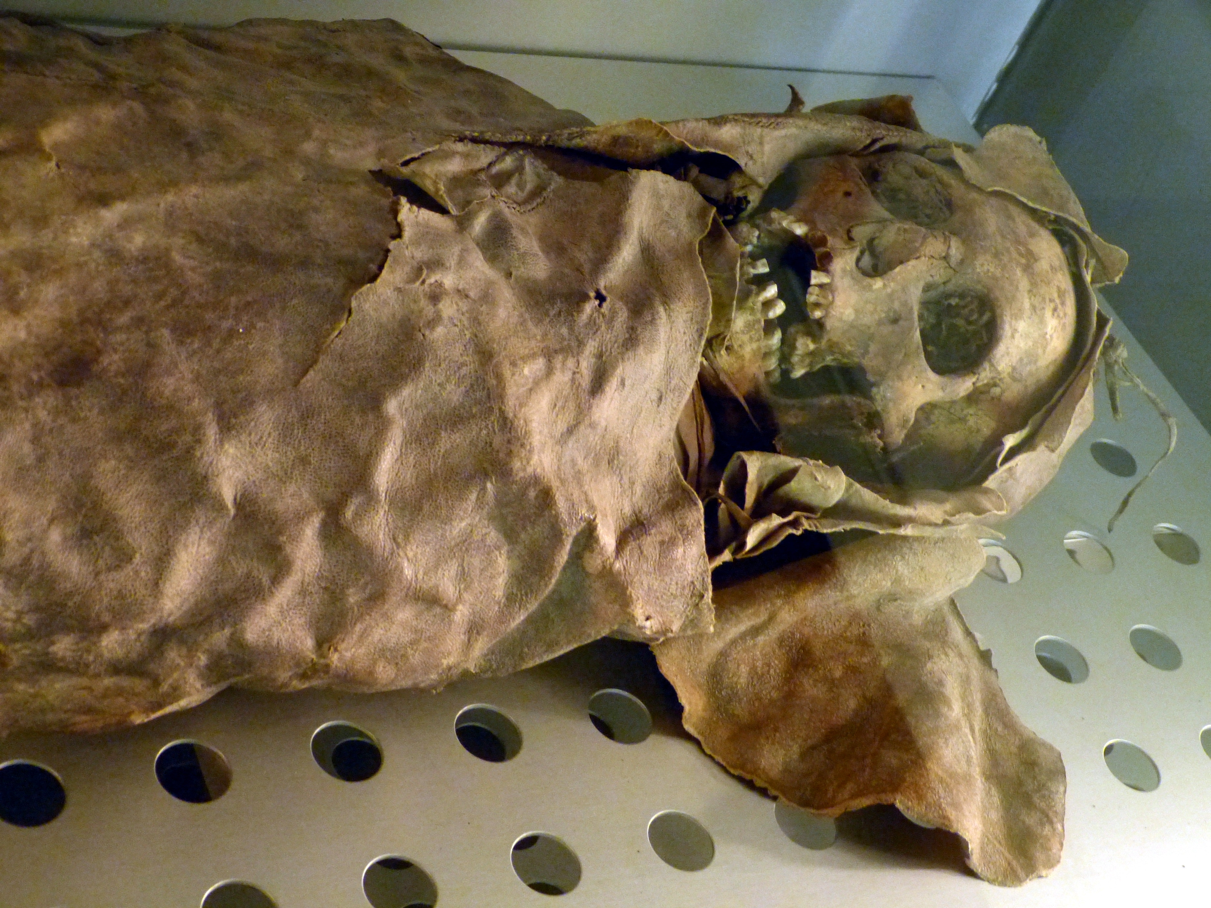 Santa Cruz de Tenerife ( Spain ). Museo de la Naturaleza y el Hombre - Guanche collections: Mummy ( 830 AD ) of a woman, 20-24 years old, 1,37m tall, with traces of malnutrition, from Barranco de Badajoz ( Güimar / Tenerife )